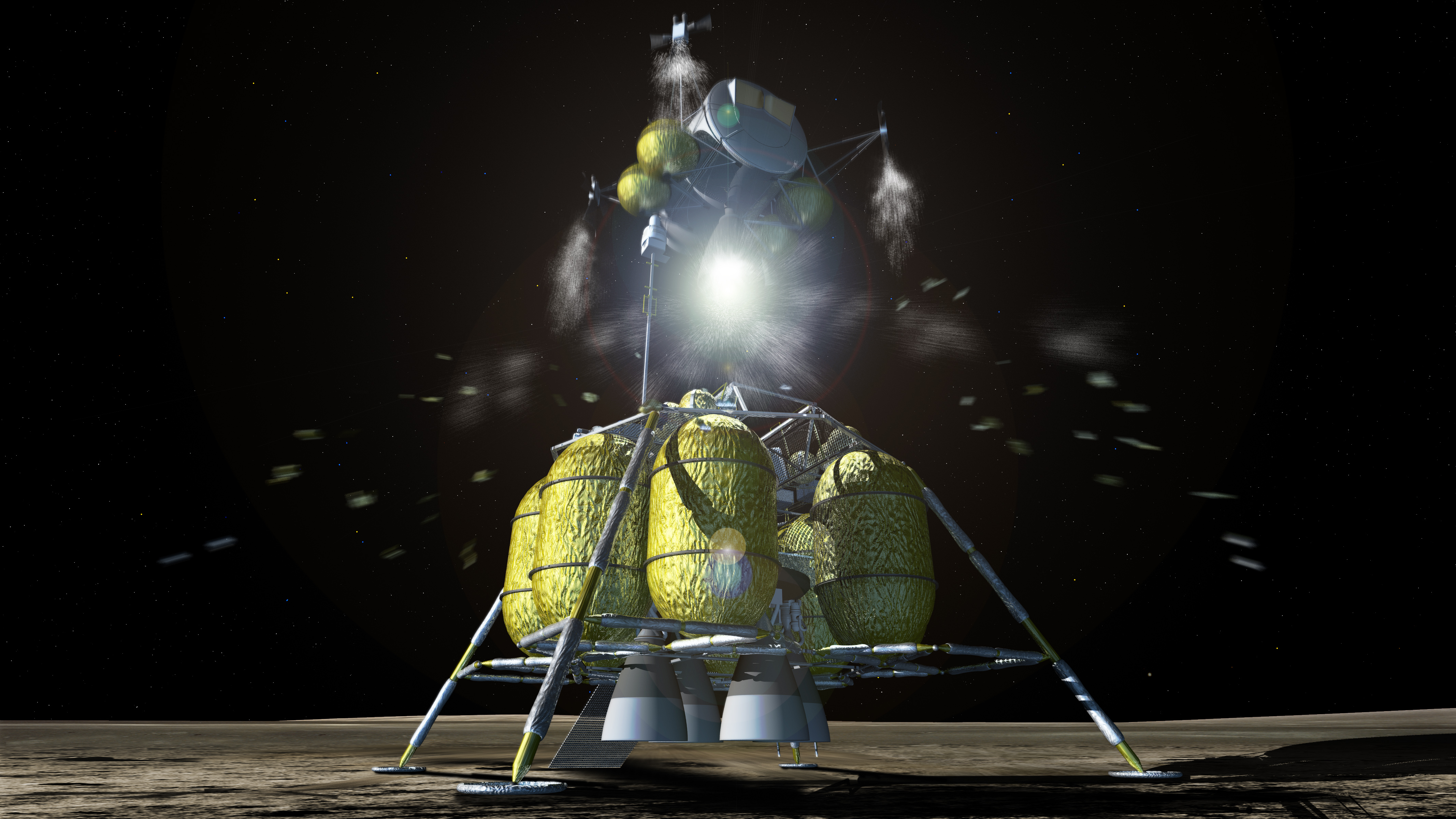 CEV astronauts leave The Moon in the LSAM ascent stage.